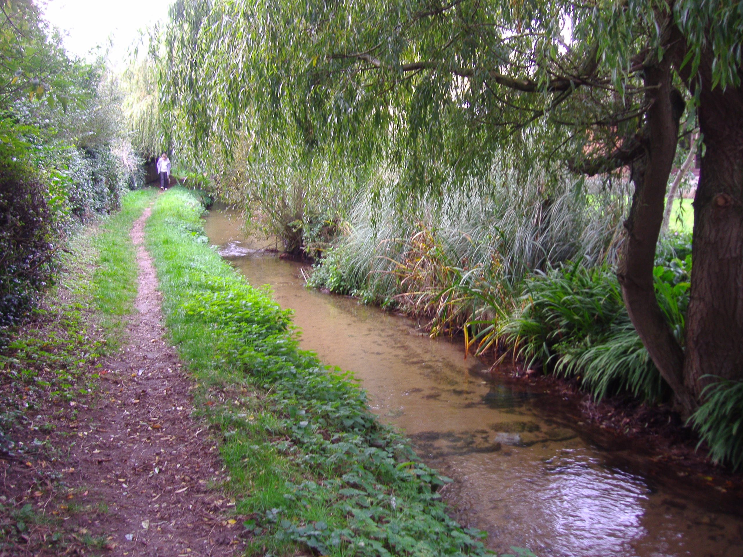 A Digital Photograph of the River Ingol at Snettisham 11th October 2007